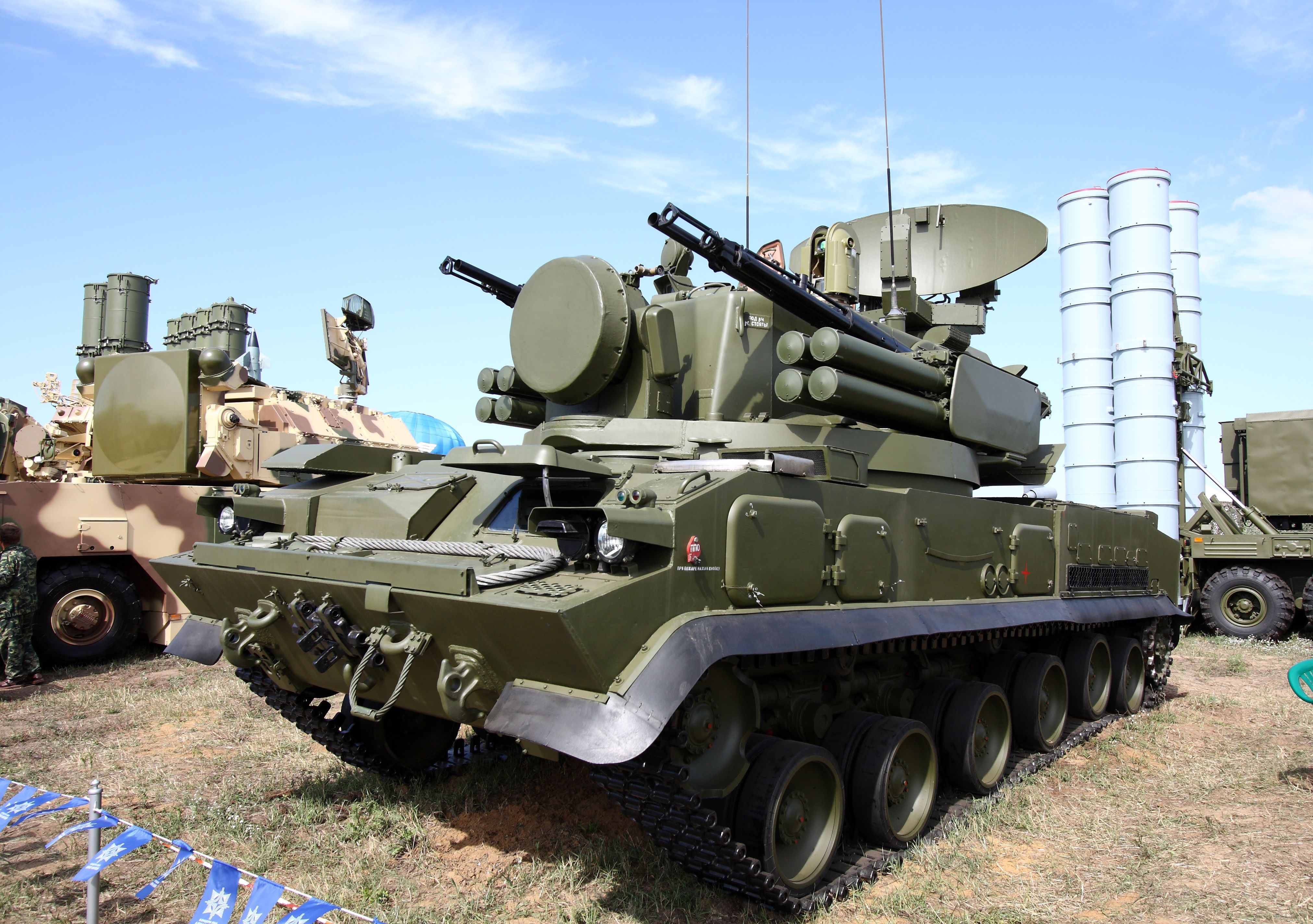 Tracked self-propelled anti-aircraft weapon armed with a surface-to-air gun and missile system Tunguska (The international aerospace salon MAKS-2011)